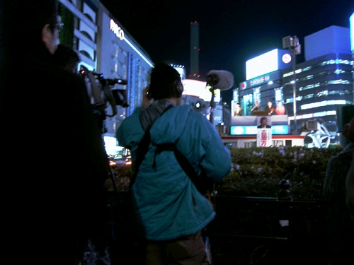 Japanese TV a photo of FujiTV,crew [1]